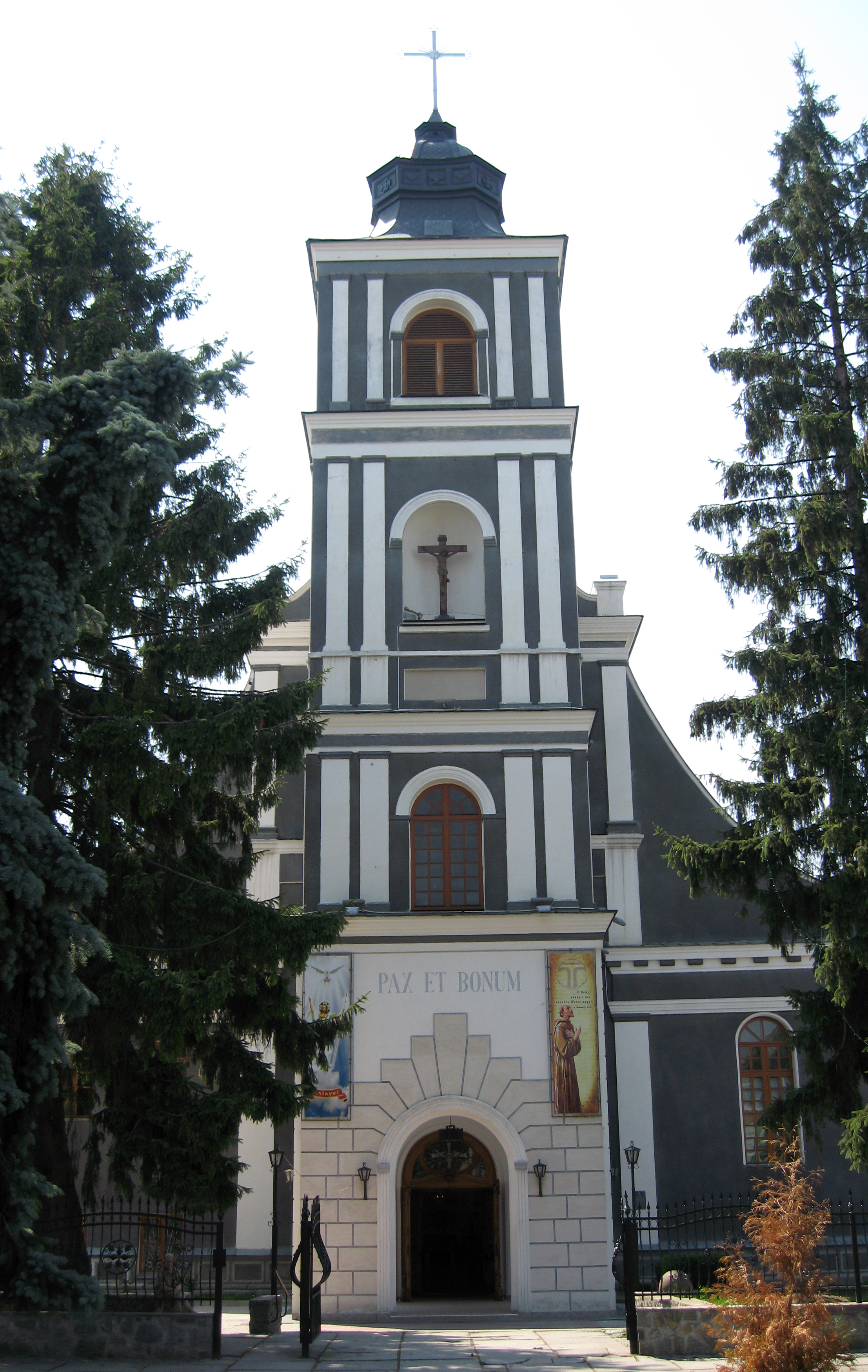 The Catholic Church St John in Zhytomyr (Ukrainian: Житомир